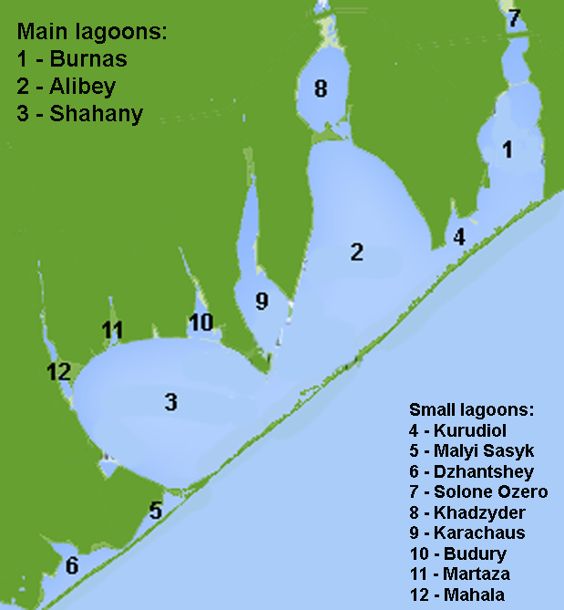 Schematic map of the Tuzly Lagoons, Odessa Oblast, SW Ukraine